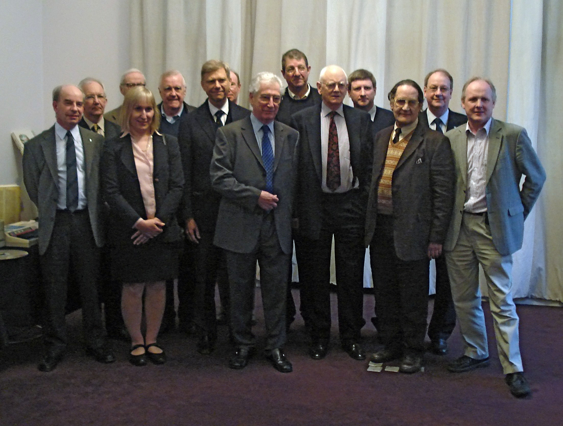 BBC Micro More memories at Darren's article here